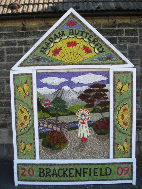 Brackenfield Well Dressing 2009